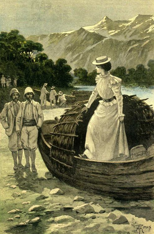 An illustration from the novel "The Mighty Orinoco" by Jules Verne drawn by George Roux.